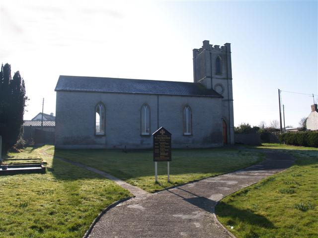 St Anne's Church of Ireland, Monnellan Located at Crossroads, near Killygordon